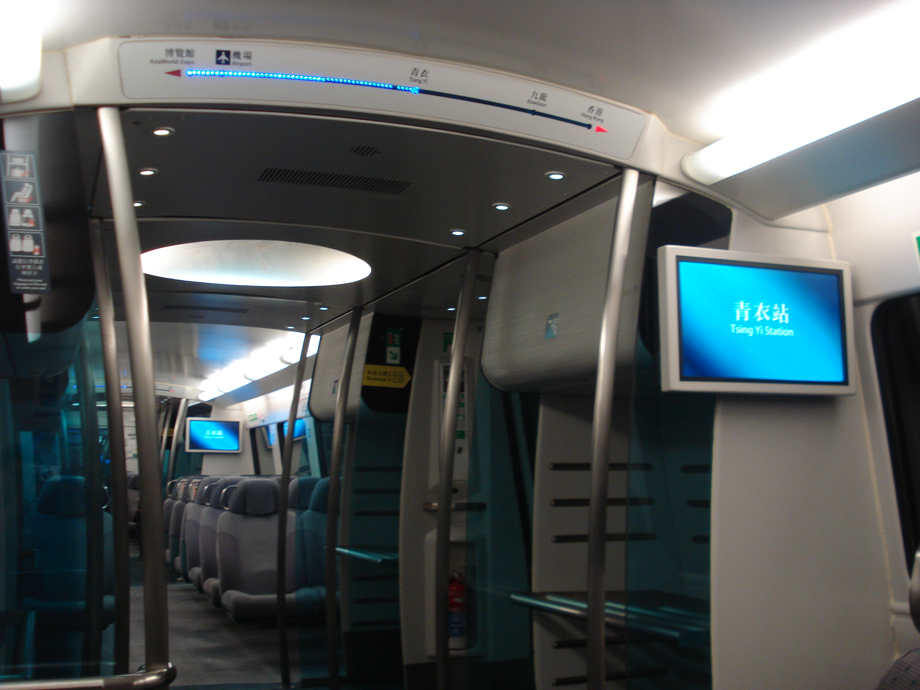 Airport Express Interior: Entry/Exit Door Path and Baggage compartments.